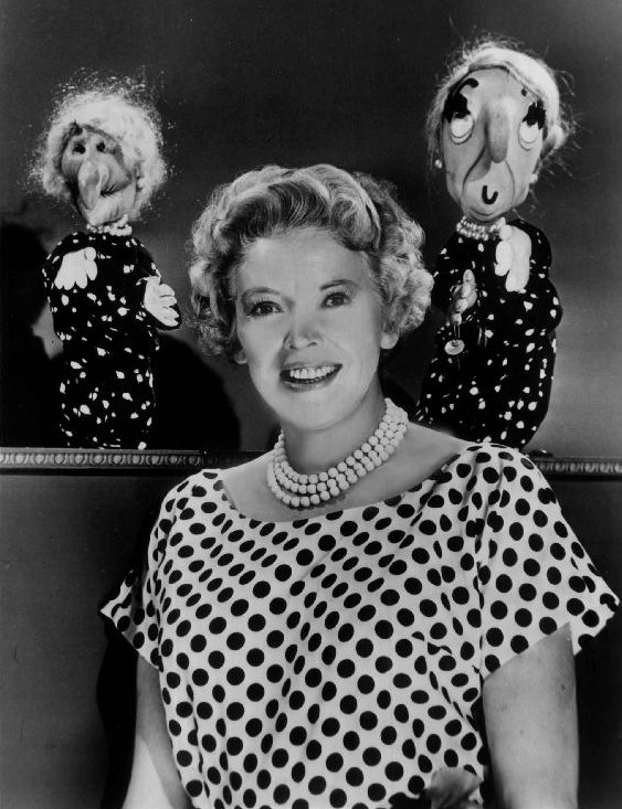 Photo of Fran Allison with "Kukla" cast members Buelah Witch (left) and Madame Oglepuss from the television program Burr Tillstrom's Kukla and Ollie. Both puppet personalities are wearing what they believed was a "designer original".